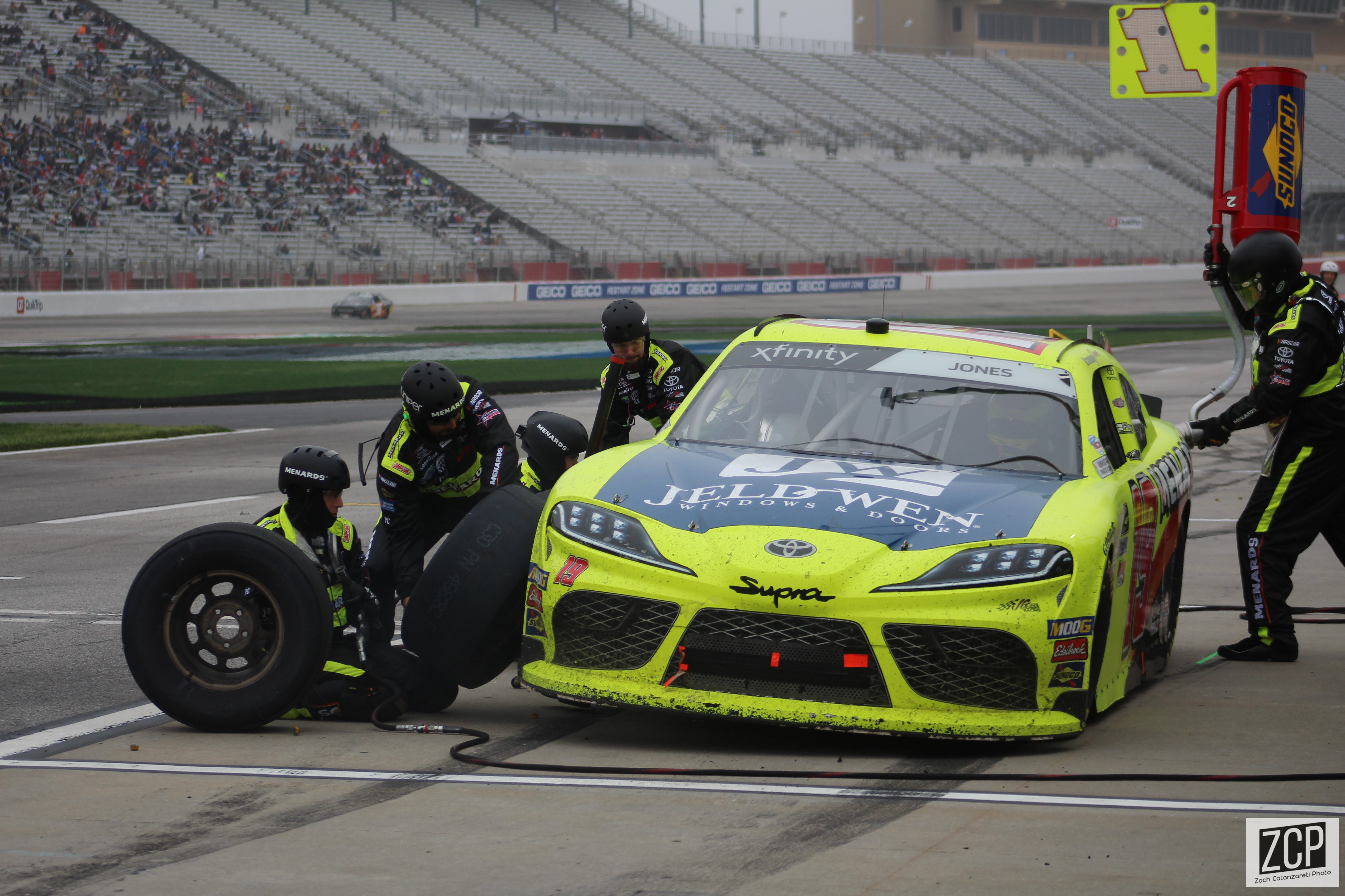 2019 Folds of Honor QuikTrip 500